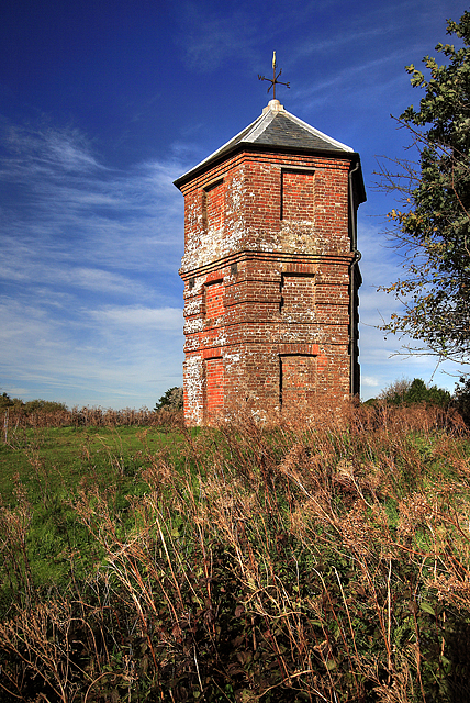 The Pepperbox of Pepperbox Hill, near to West Grimstead, Wiltshire, Great Britain. A hexagonal early C17 folly of 3 storeys, attributed to Giles Eyre of Brickworth House, and known also as Eyre's Folly. The ground floor doorways and windows of the upper floors have been blocked. Grade II Listed.